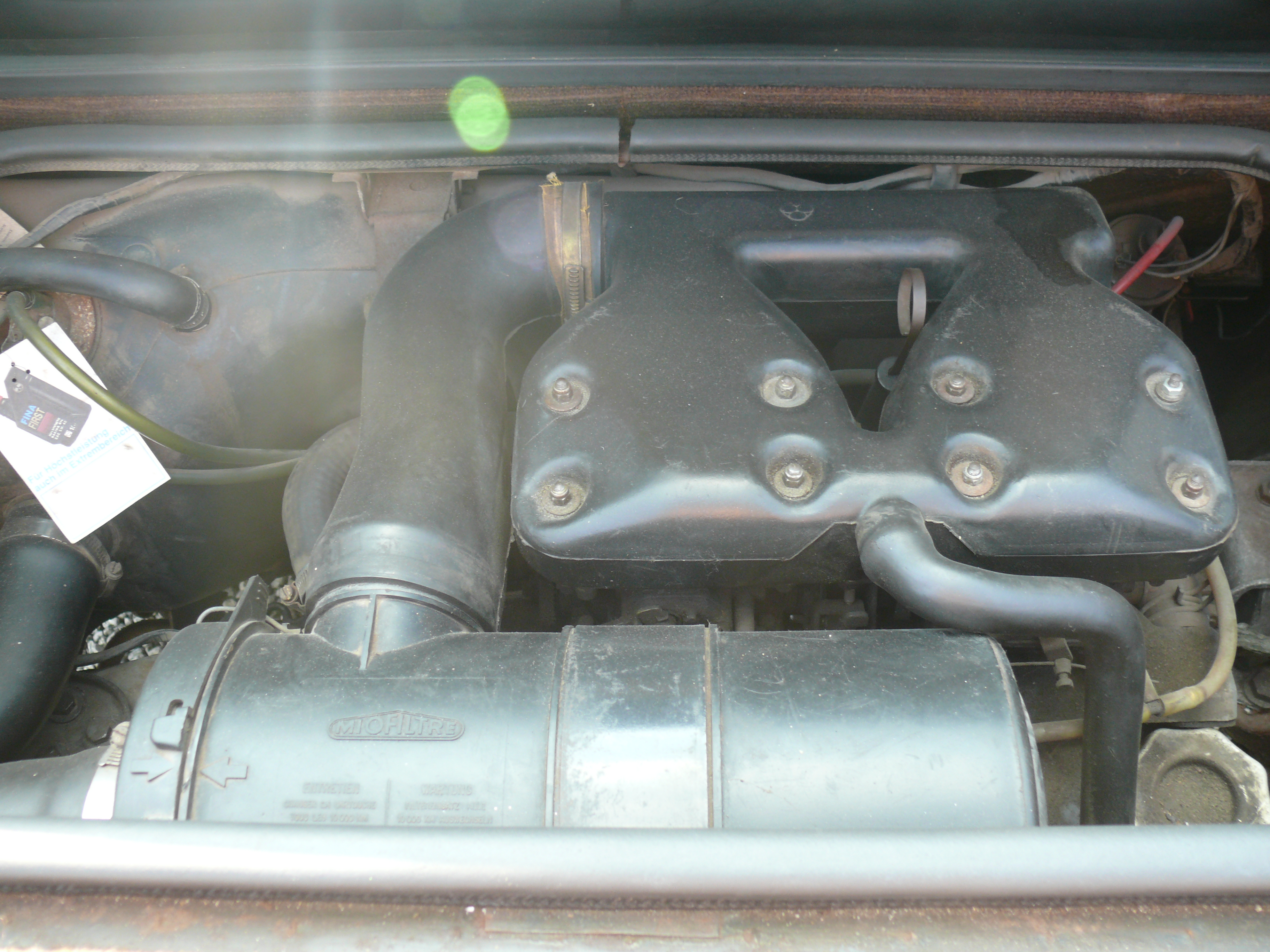 Mid-mounted engine of an early Matra-Simca Bagheera.